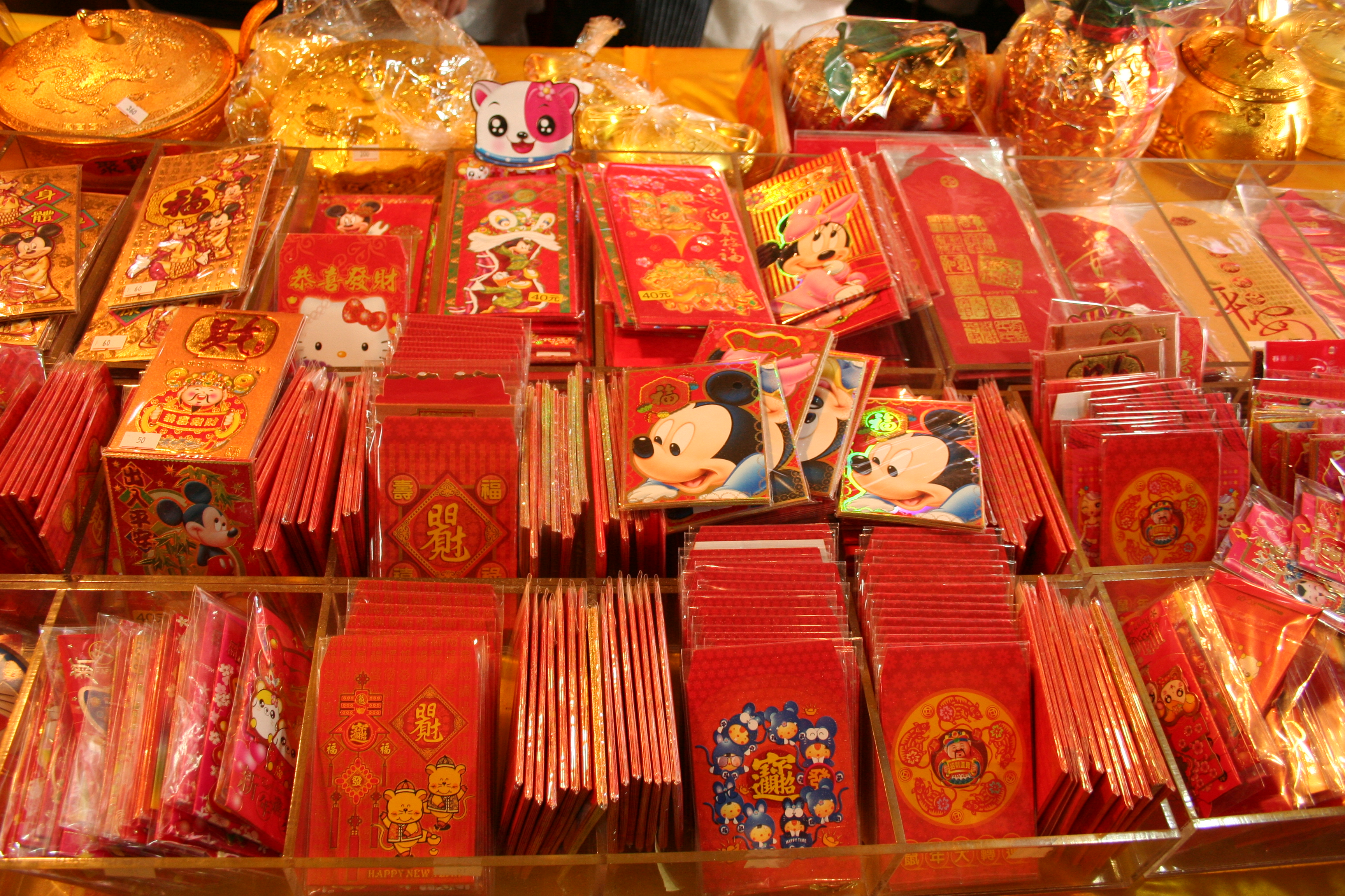 Hongbao for sale in Dihua Market in Taipei on Taiwan